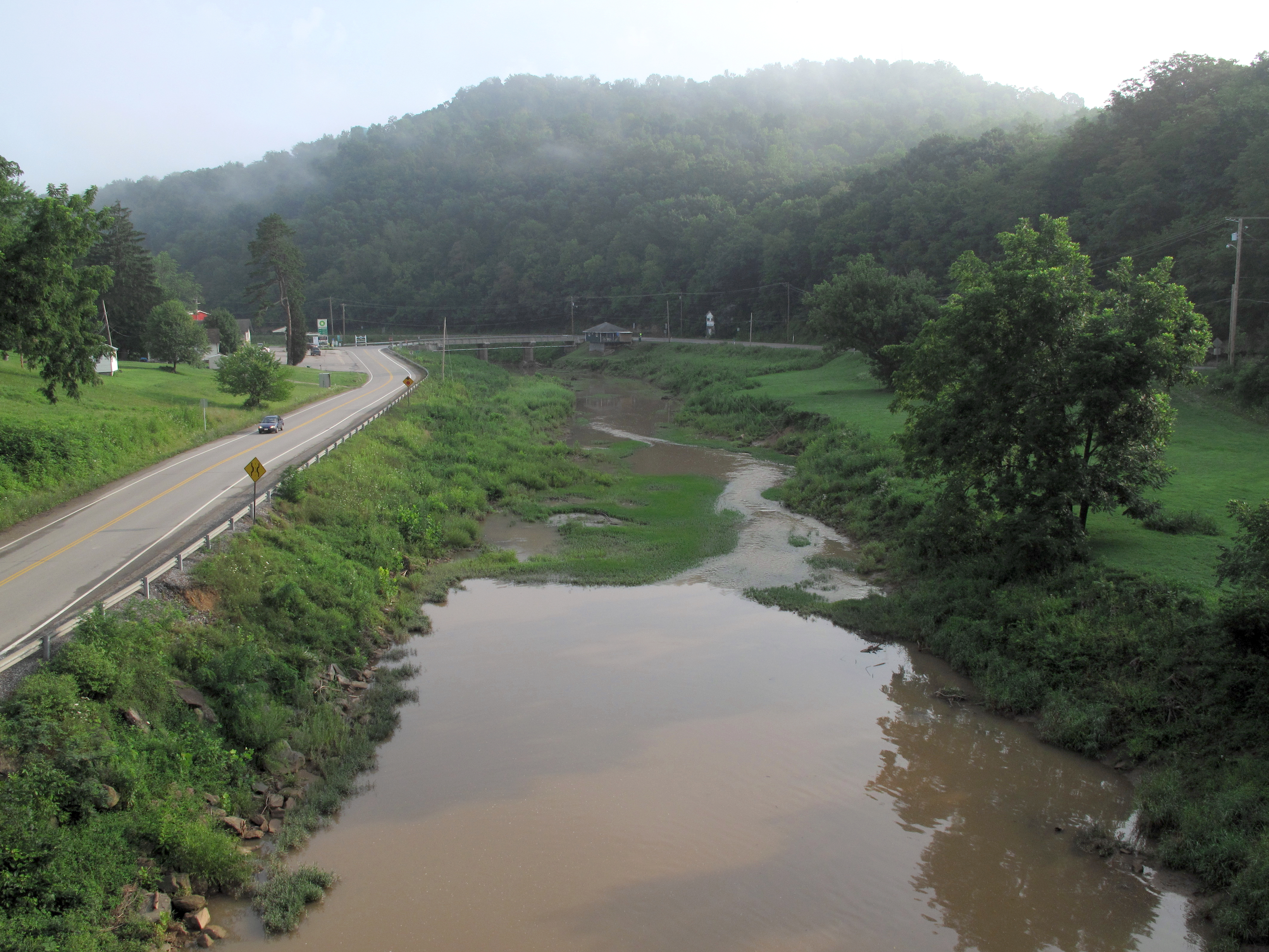 Middle Island Creek as viewed downstream from the North Bend Rail Trail in West Union, West Virginia.